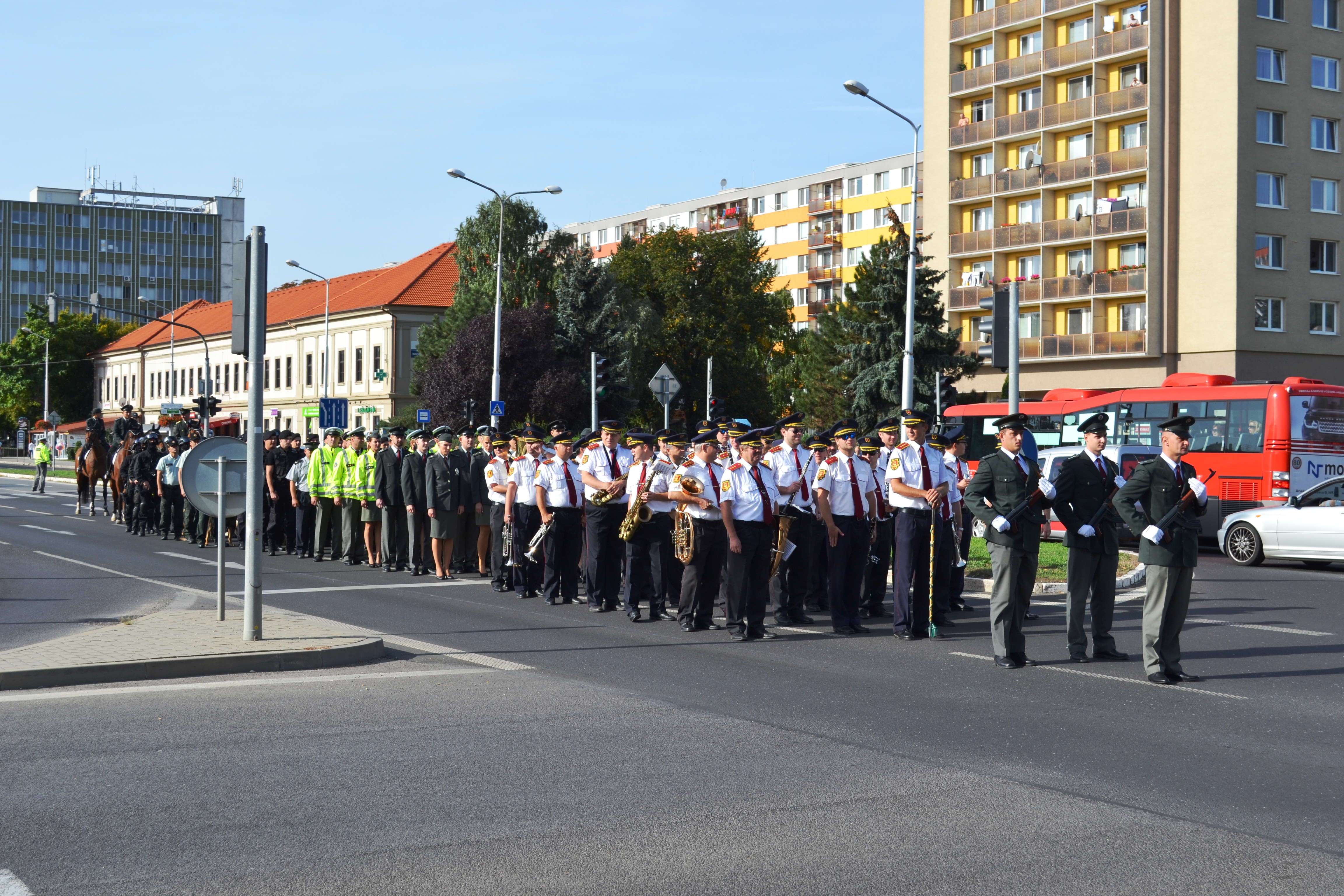 Police of Slovakia in NtraSlovenčina: Slovenská polícia v Nitre